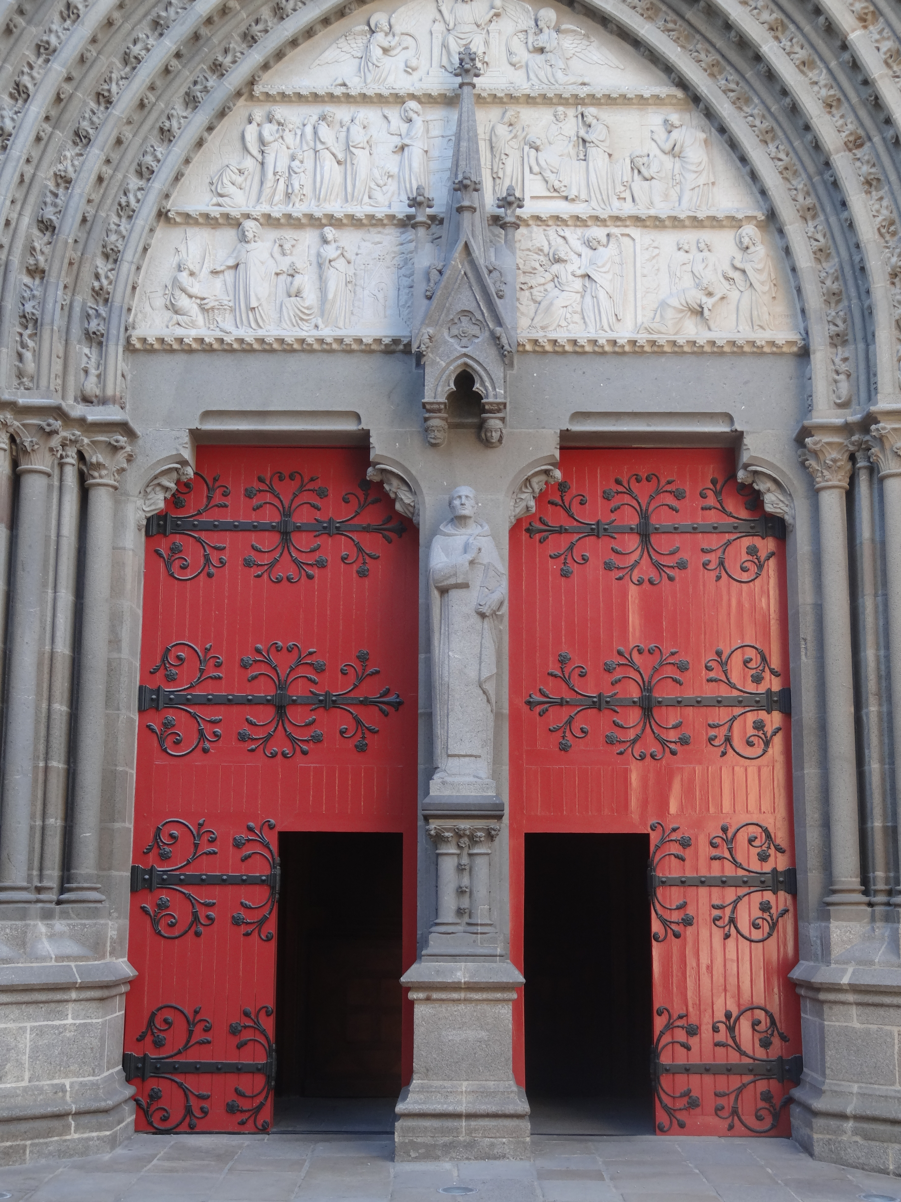 West facade of Cathédrale Saint-Pierre de Vannes